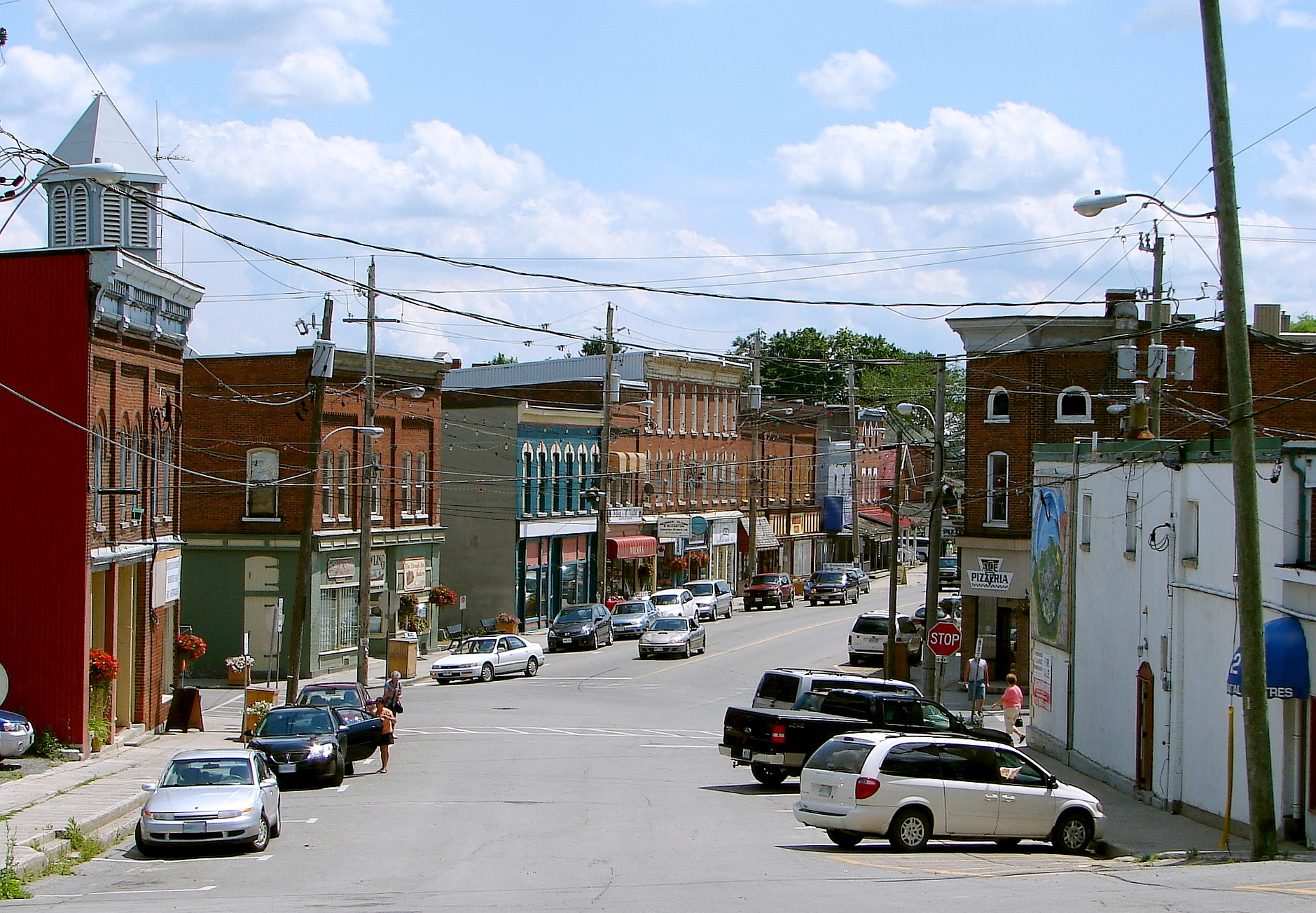 Madoc (Centre Hastings Township), Ontario, Canada